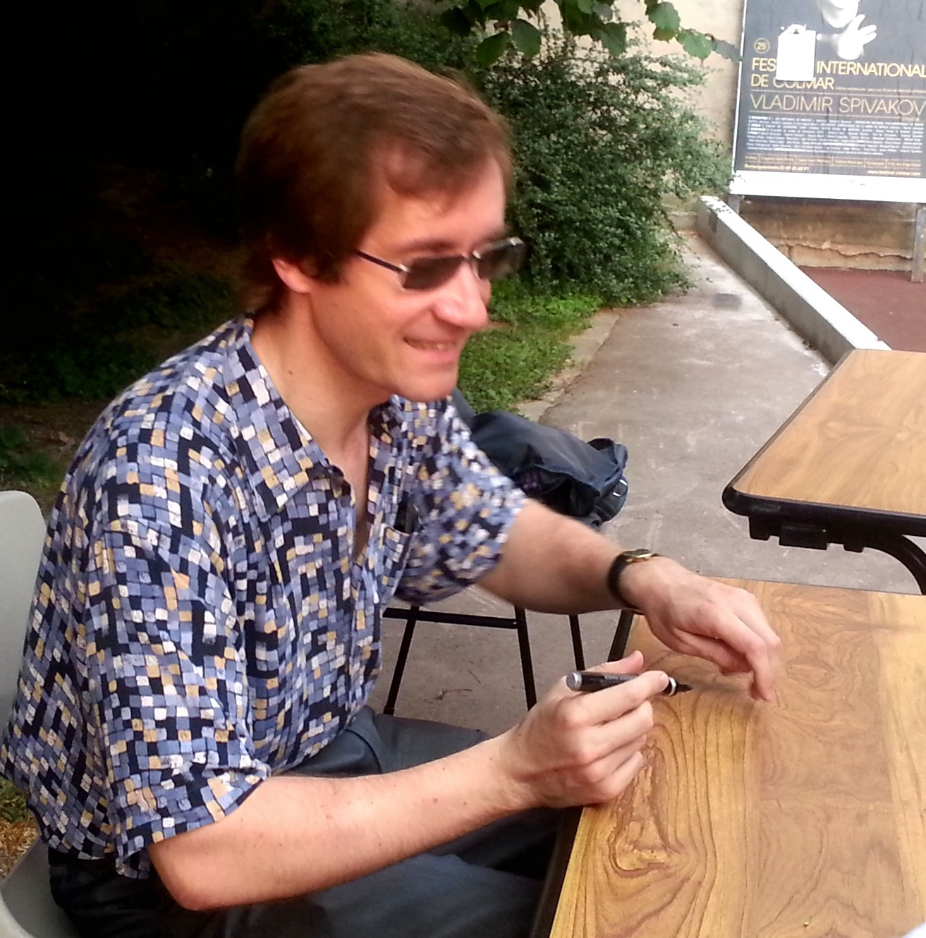 Autograph session at the International Festival of Colmar 2013/07 by Nikolaï Louganski